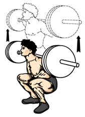 How To Perform The Squat